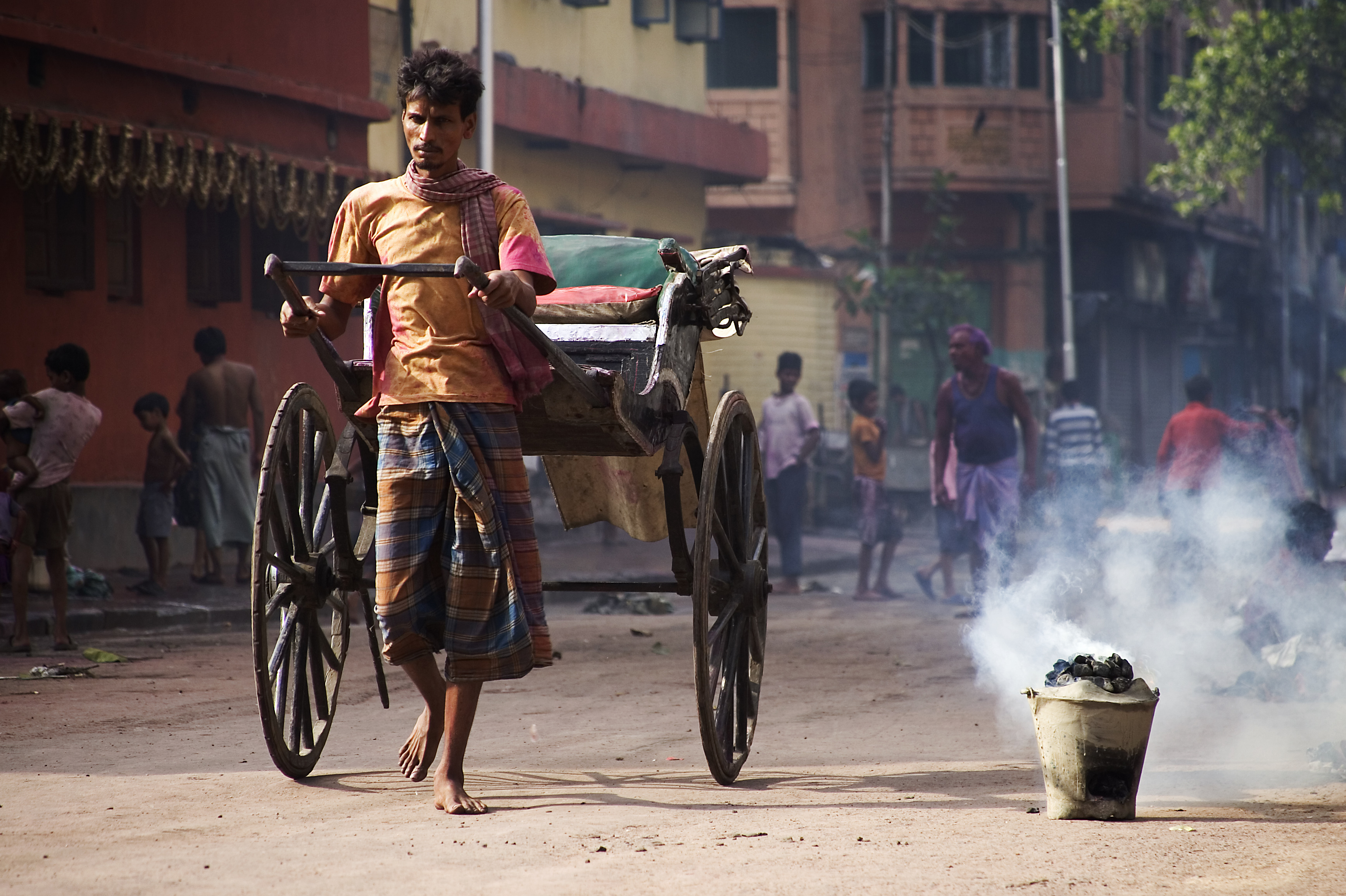 Kolkata Rickshaw by a street with smoke